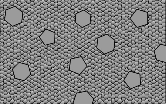 Porphyritic, Porphyritic texture